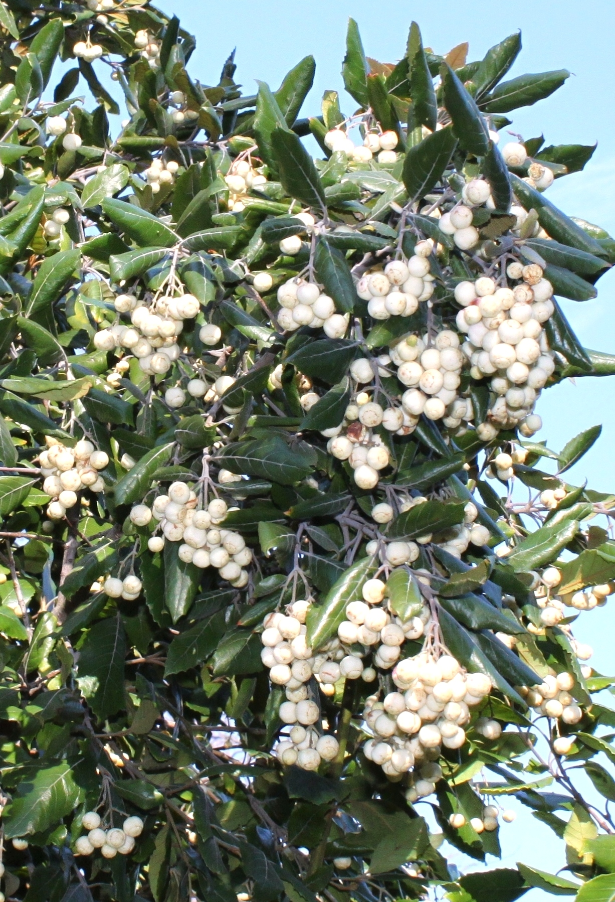 Curtisia dentata. Assegai tree. Cape Town. Fruits and foliage.